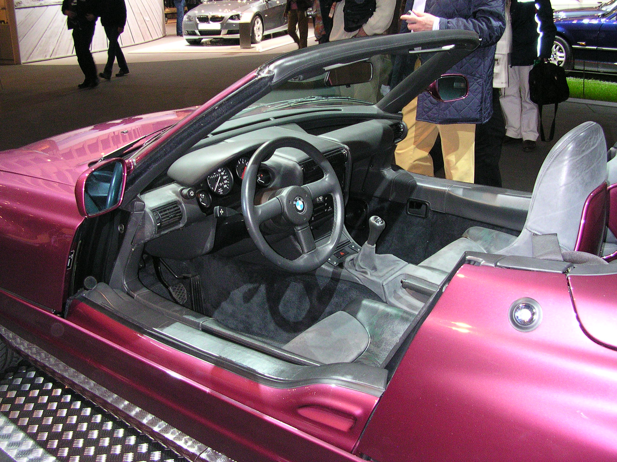 Essen Techno-Classica 2007, BMW Z1